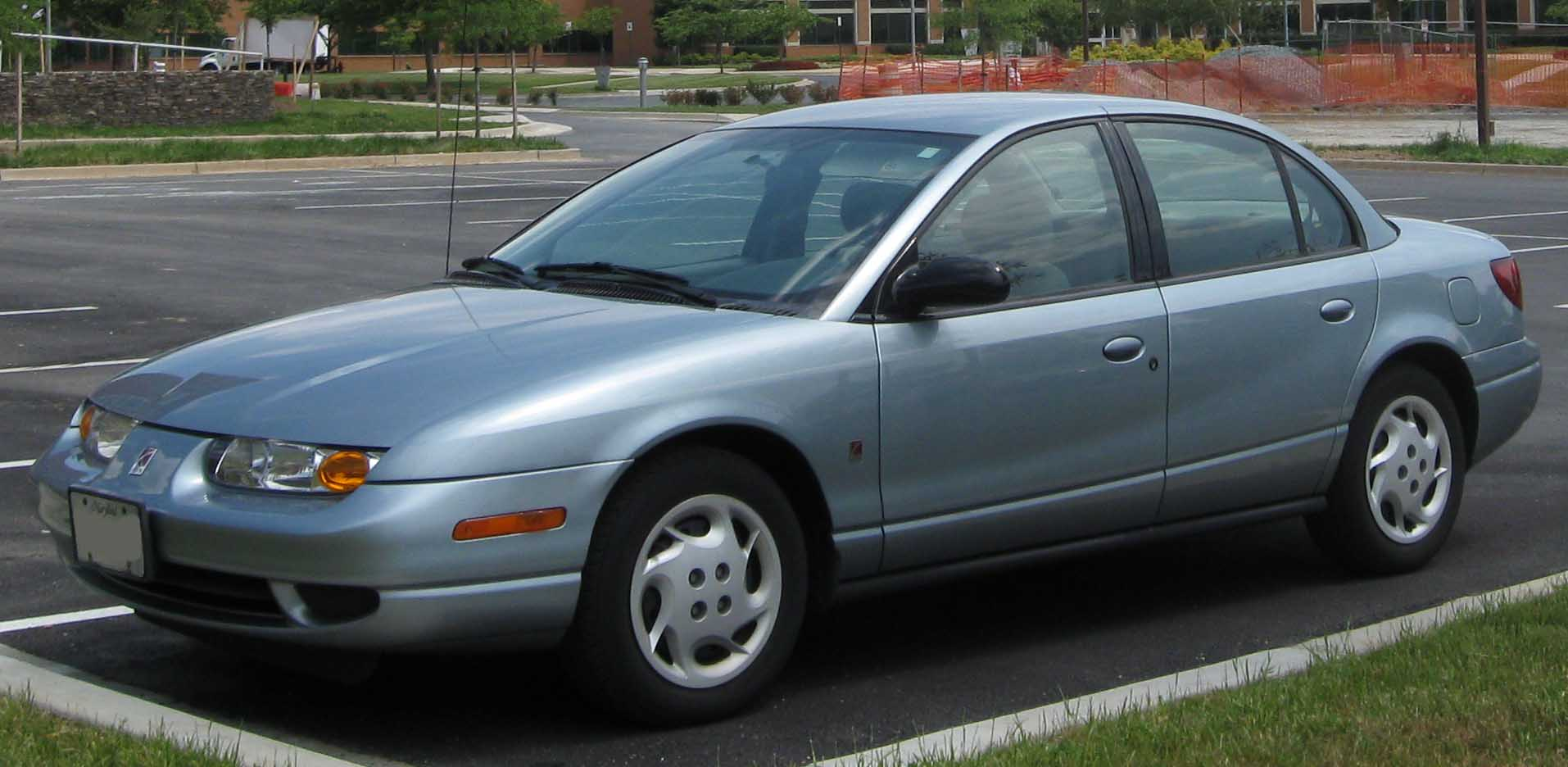 2000-2002 Saturn SL photographed in Shady Grove, Maryland, USA.